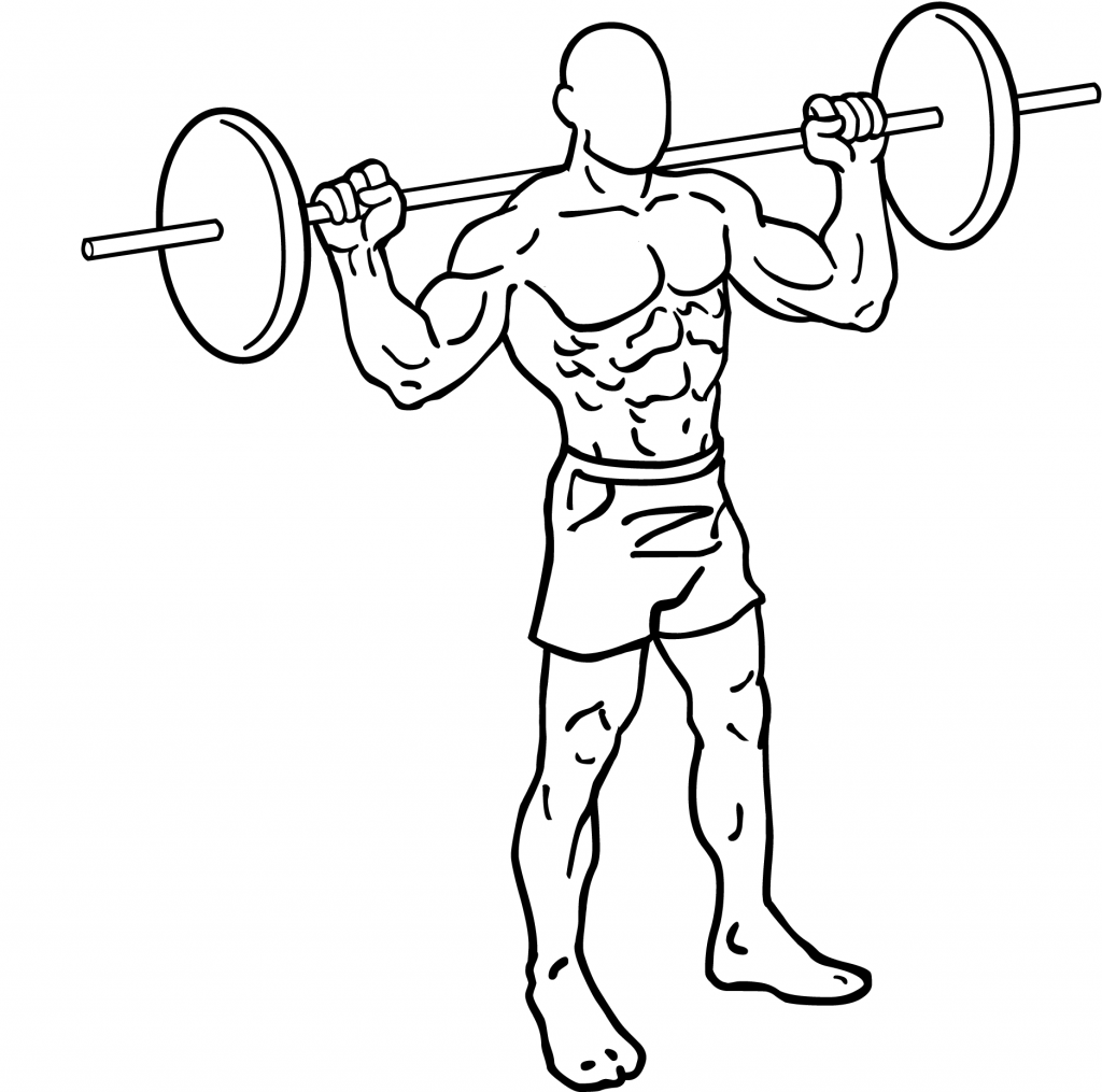 an exercise of hip